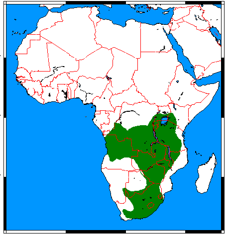 African Striped Weasel (Poecilogale albinucha) range map, made by me with help of Map depending on the range map at IUCN red list.